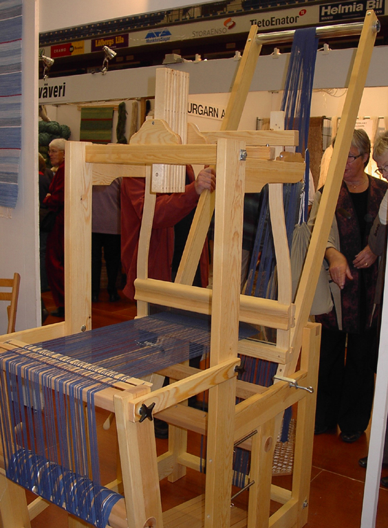 Foldable loom